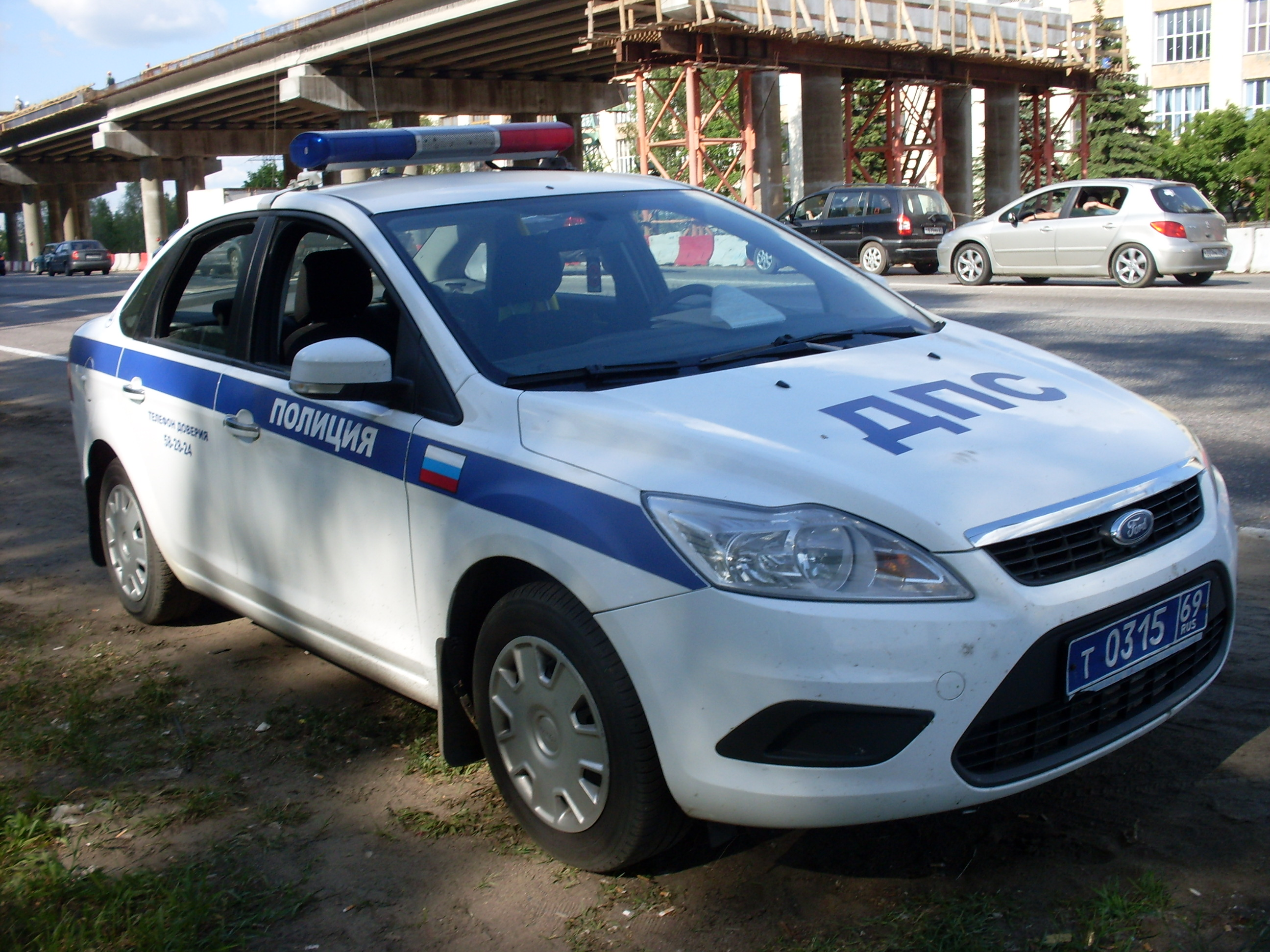 Russian Police car